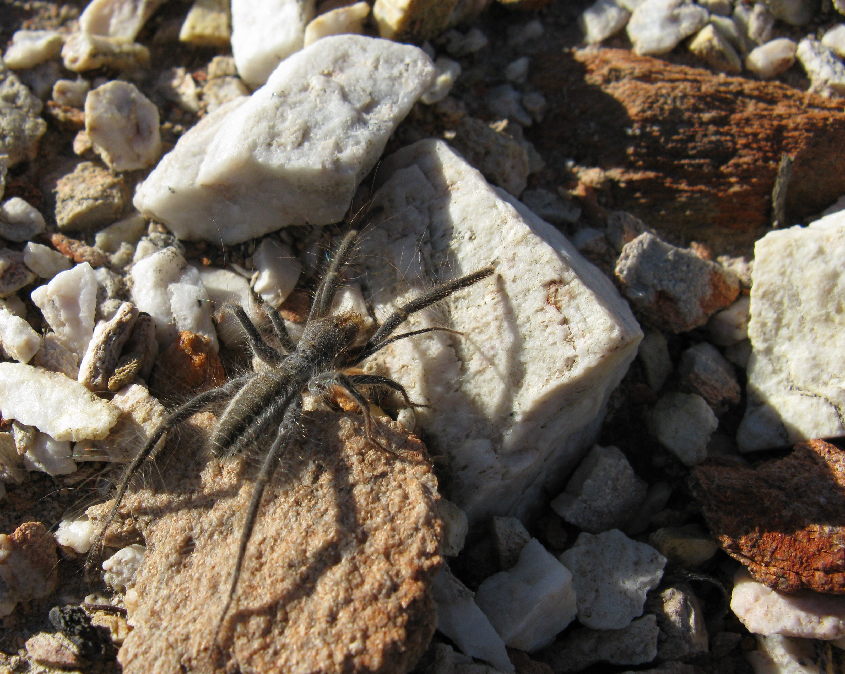 Modest-sized Solifugid near Uniondale, Western Cape, South Africa. The large fore-limbs are not legs, but pedipalps; note that they are held not quite touching the ground. Note the sensory hairs all over the limbs and body